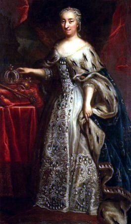 Portrait of Ulrika Eleonora of Sweden (1688-1741)